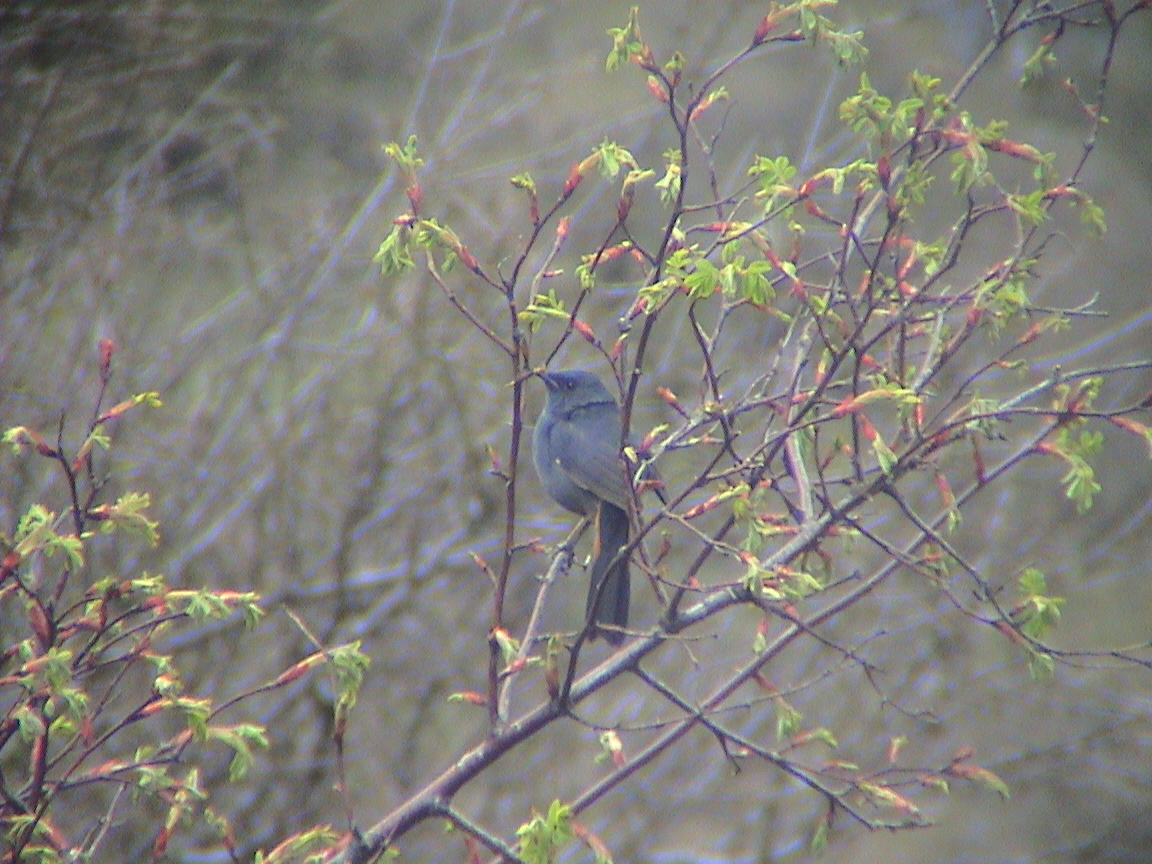 White bellied Redstart Luscinia phoenicuroides in Uttarakhand, India.